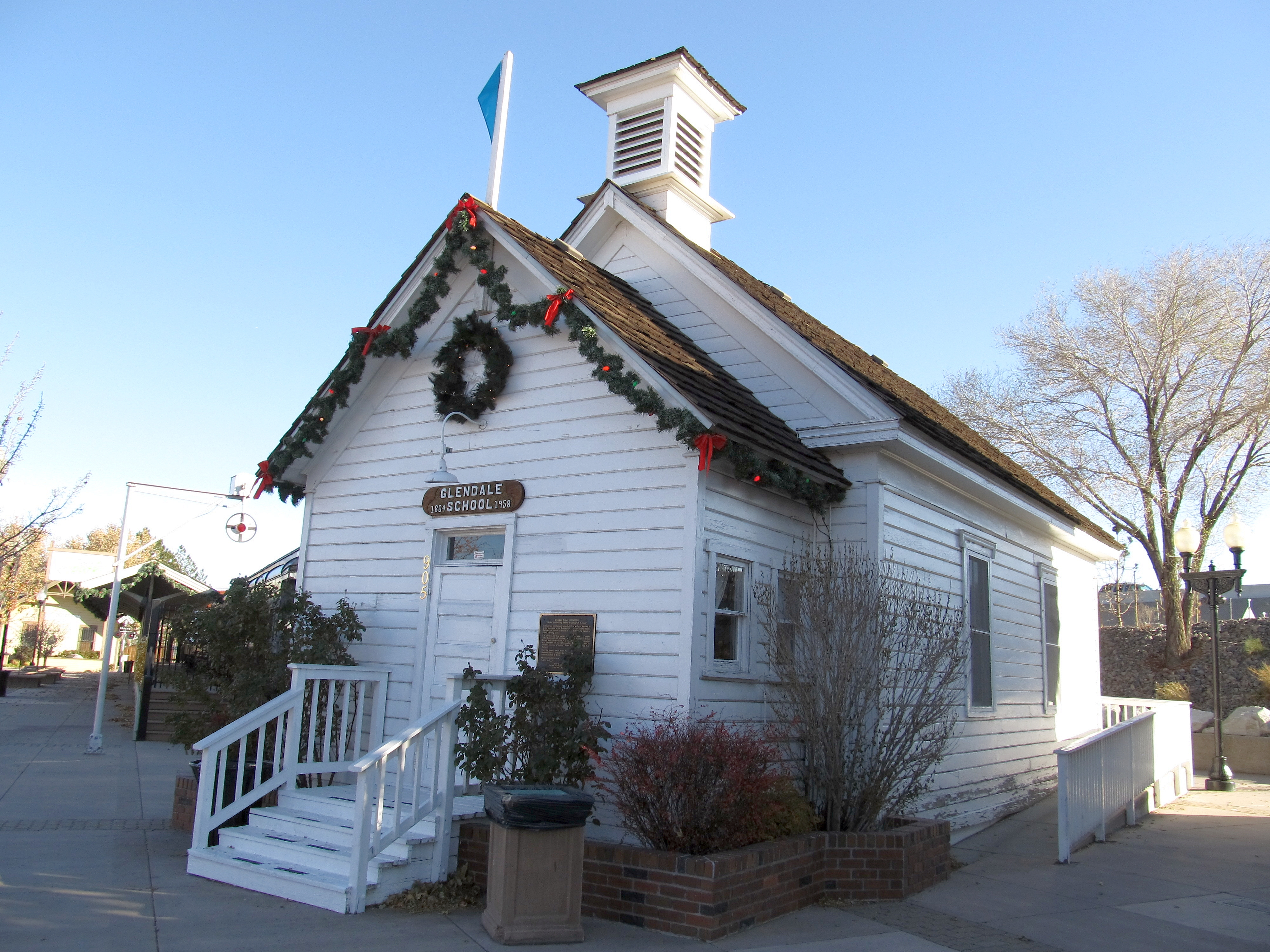 Old Glendale School, Sparks, Nevada. "Oldest Remaining School Building in Nevada."